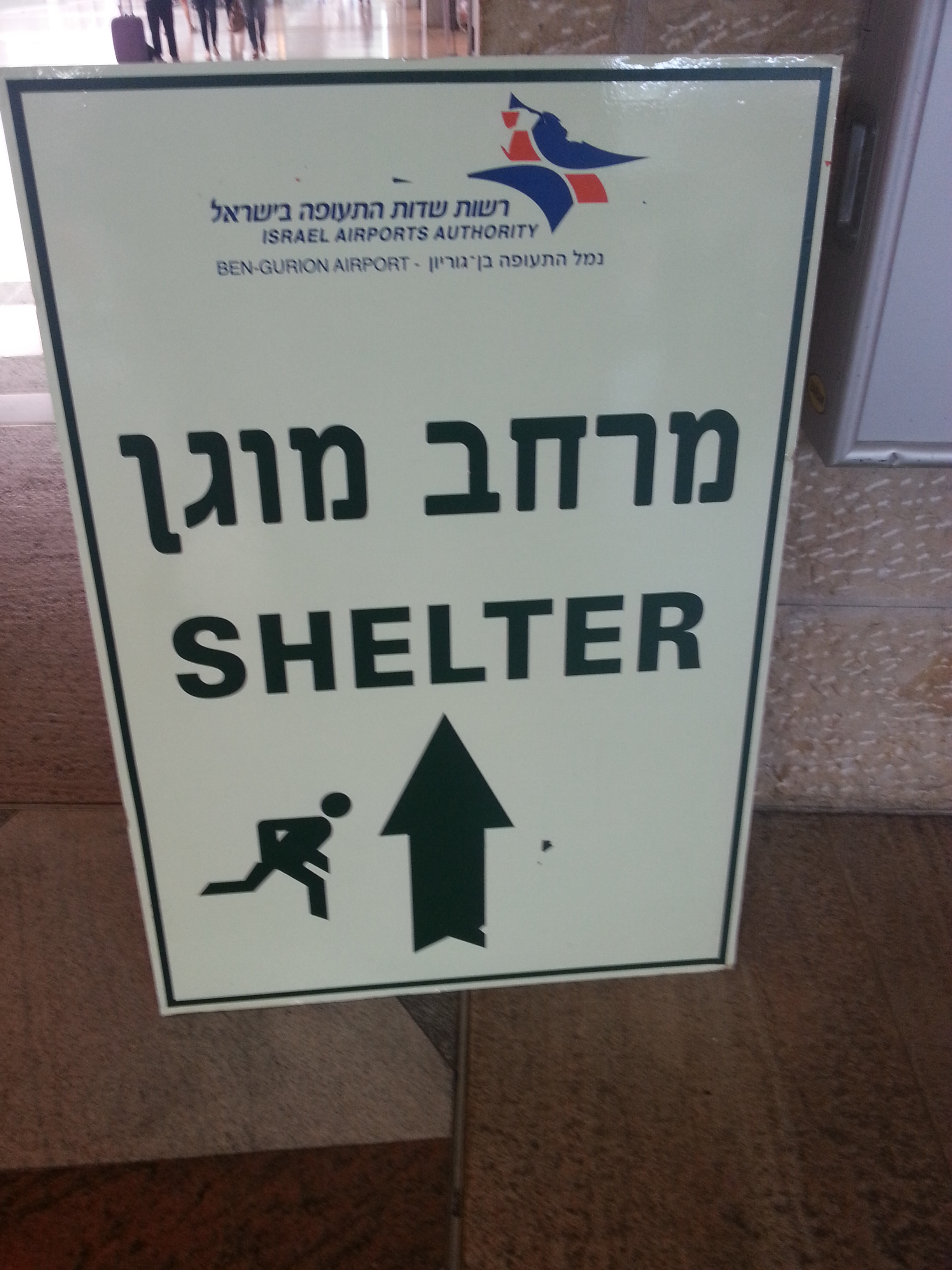 One of the signs that were placed in Ben Gurion International Airport during Operation Protective Edge to instruct Israeli and international visitors where to go in case of a rocket attack from Gaza.